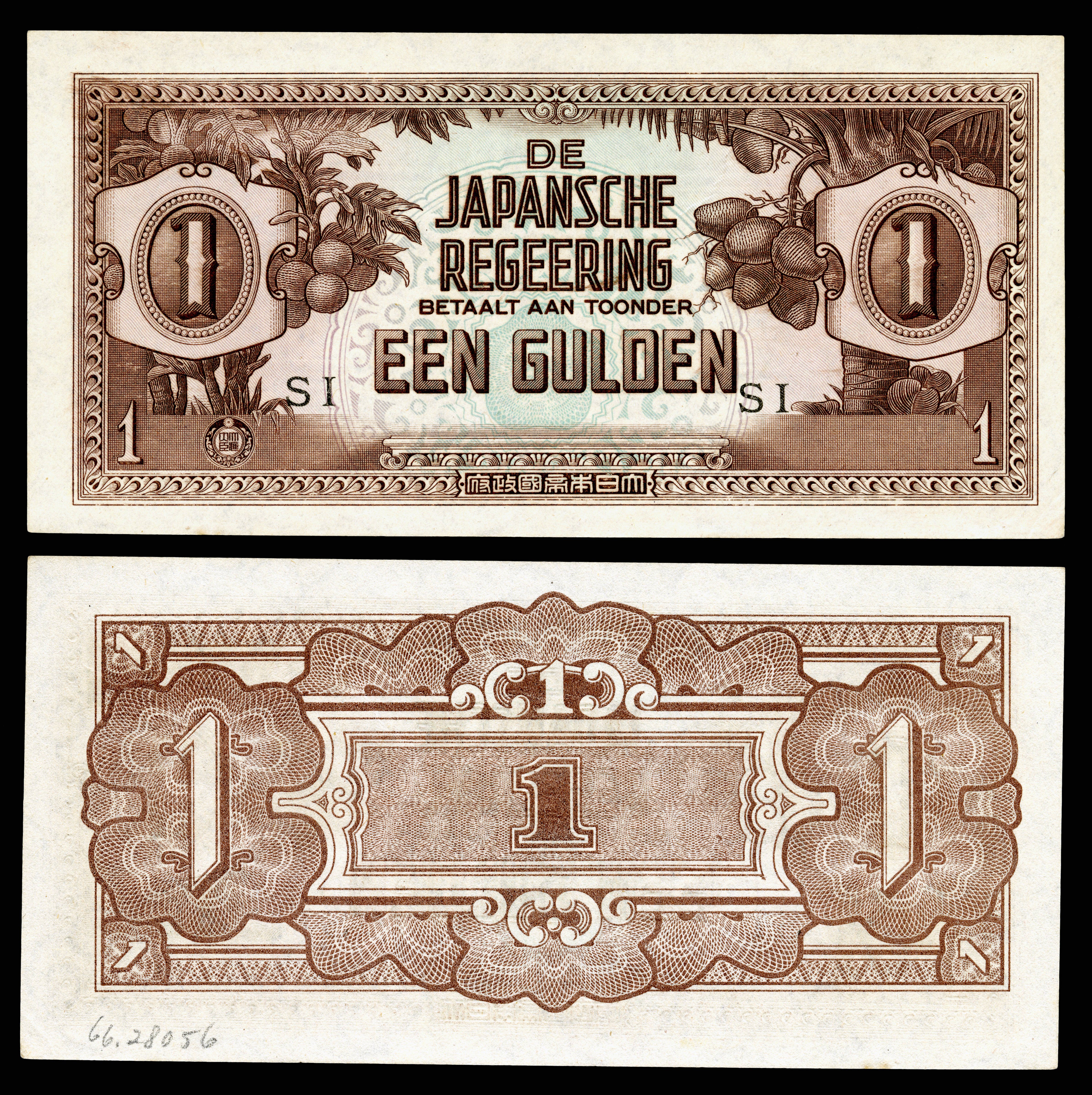 A one-gulden Japanese-issued Netherlands Indies note (1942). Japanese invasion money of World War II, was issued between 1942 and 1945 by the occupying Japanese government.